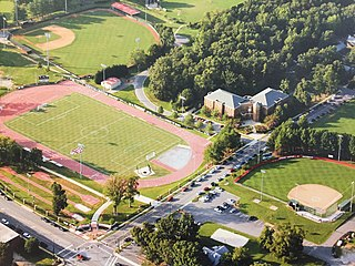 Opening in 2008 with the Irwin Belk Track and a new soccer field, the Moretz Sports Athletic Complex has showcased Lenoir-Rhyne athletics and become a valuable and welcoming center for the physical well-being of the entire Hickory community.